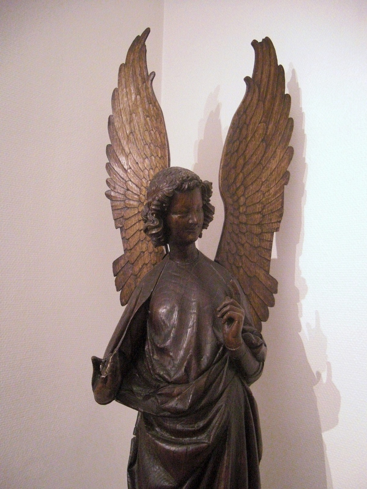 Angel of Humbert (left angel). Arras Art Museum. 13th century. Oak, 1,30 m